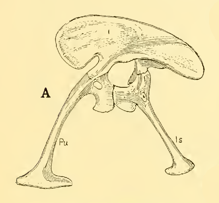 An illustration from The Osteology of the Reptiles